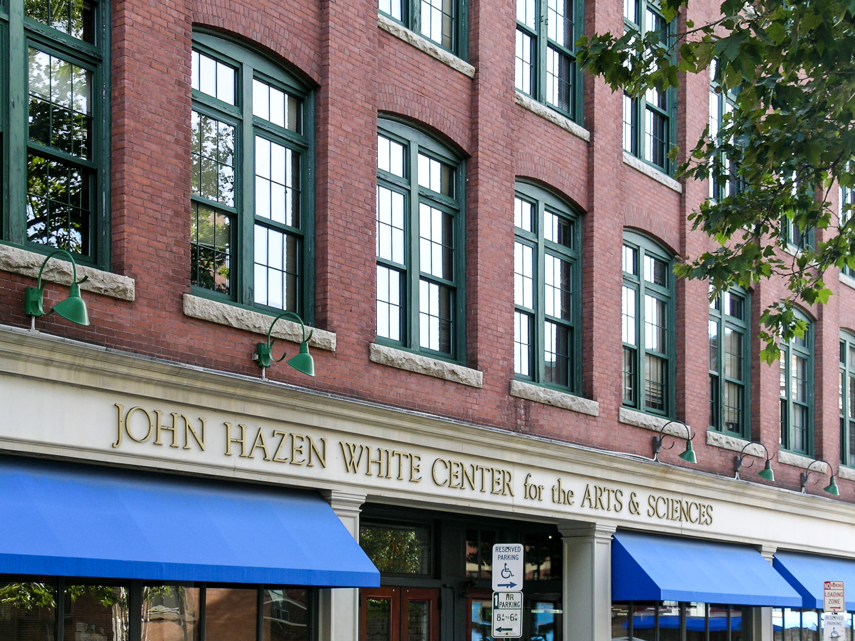 Johnson & Wales University Providence RI